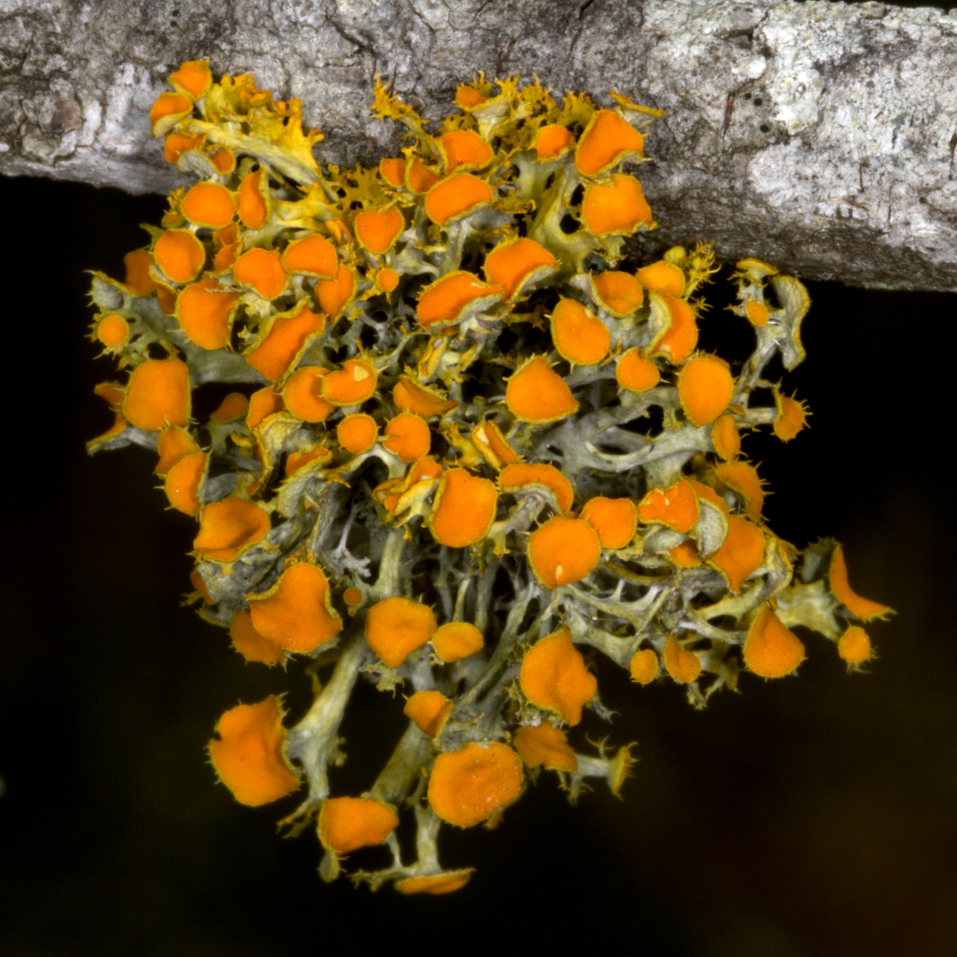 Species with a global distribution Photographed in Two Rivers Park, Little Rock, Arkansas